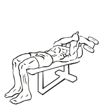 an exercise of triceps